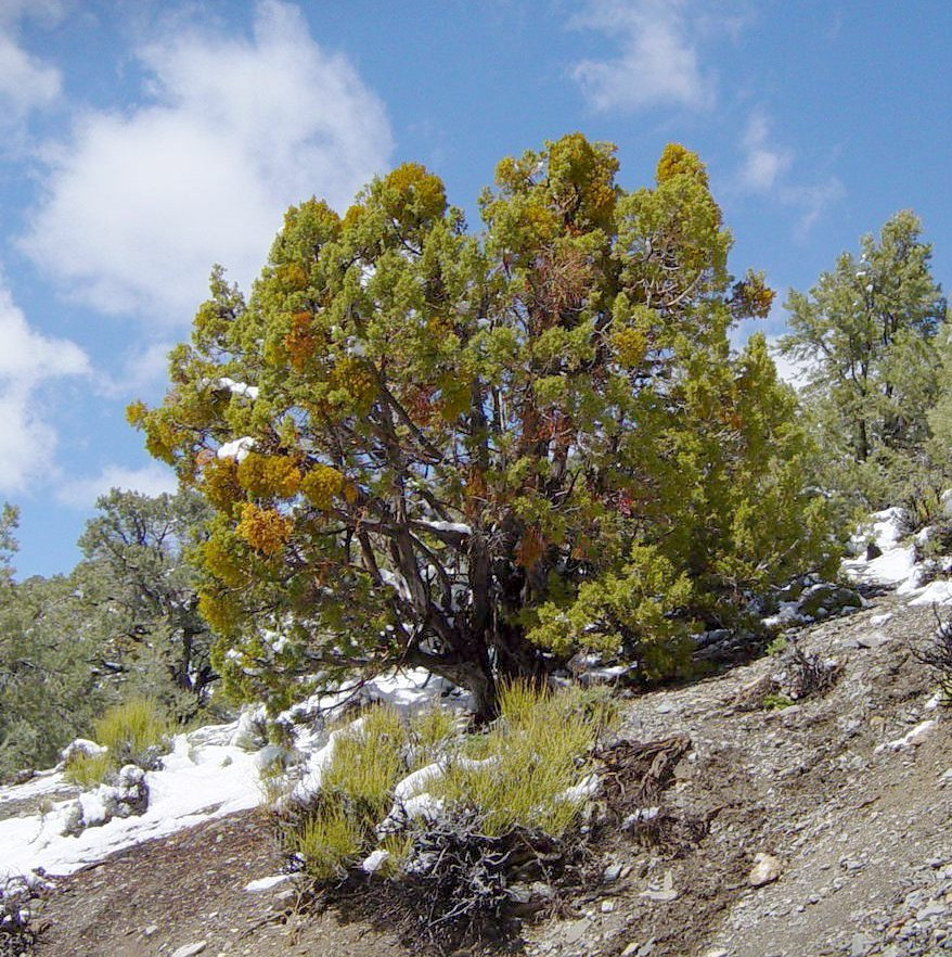 Juniperus osteosperma. Photo taken by Daniel Mayer in April 2003. Charcoal Kilns are at 36°14'48"N 117°04'34"W, 2100m altitude (google earth).